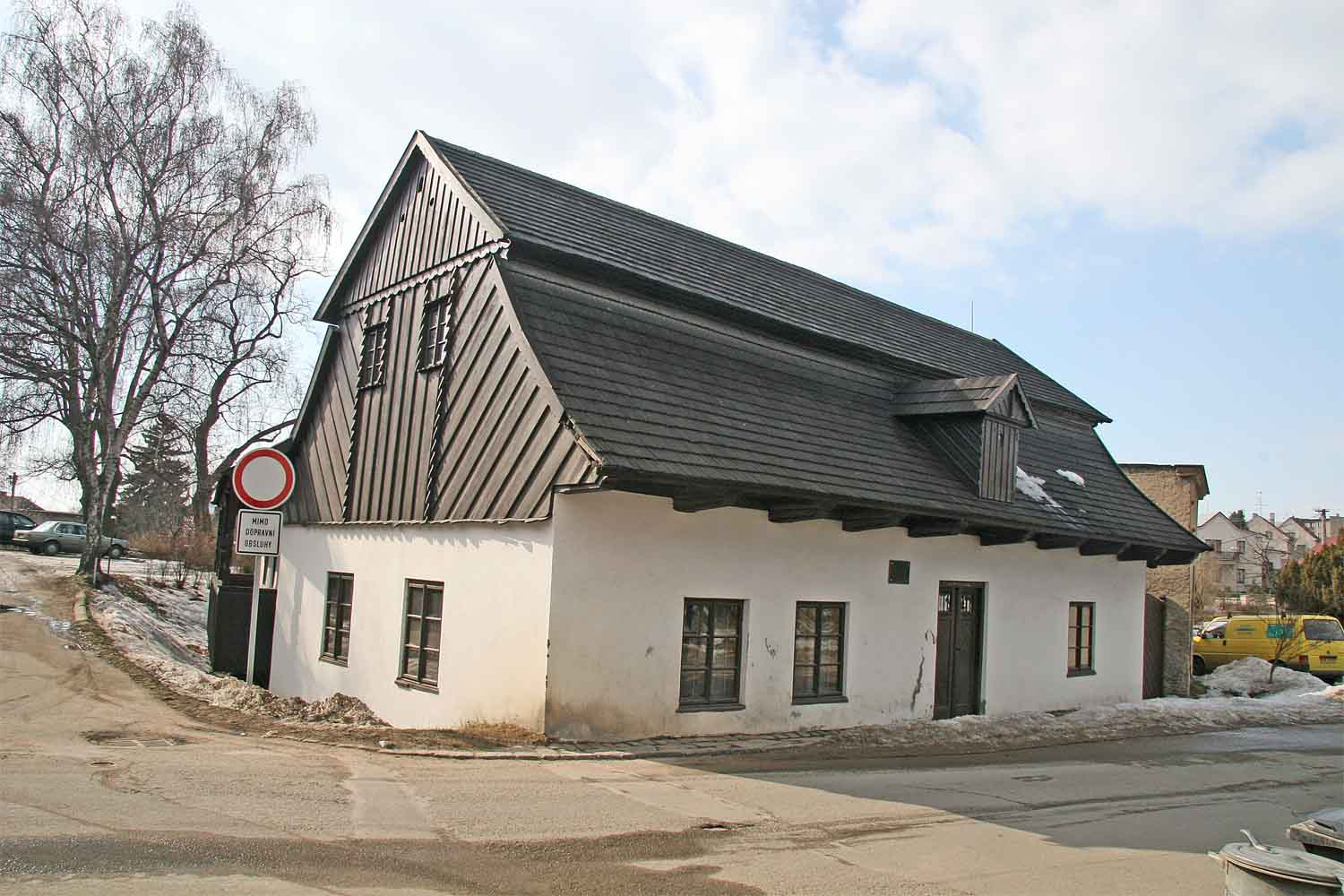 Birth house of František Vladislav Hek (1769-1847), a participant in the Czech National Revival. The house is now part of City museum in Dobruška and keeps exposition about Hek.